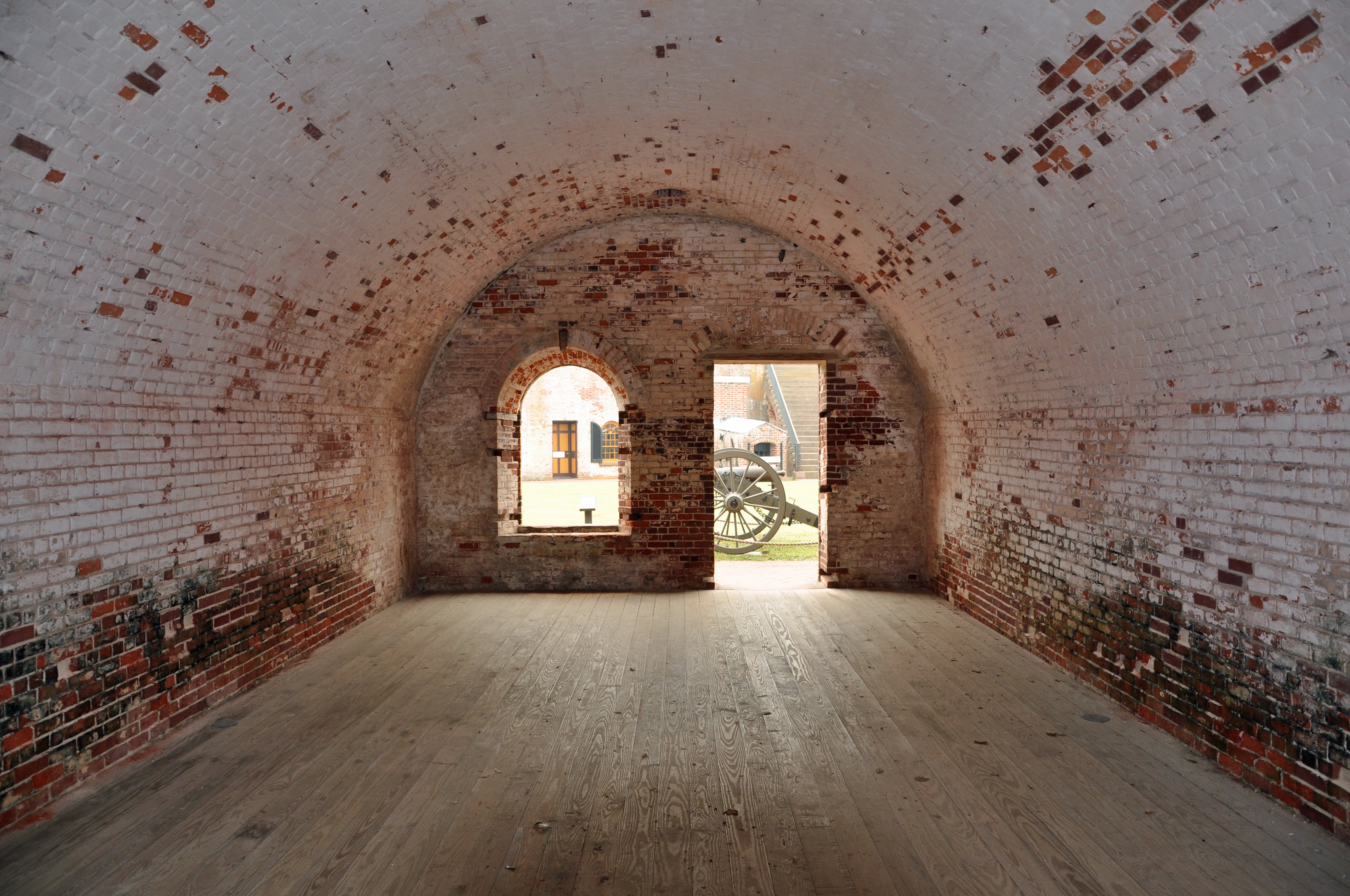 Fort Macon view from within a casement looking into the central courtyard.